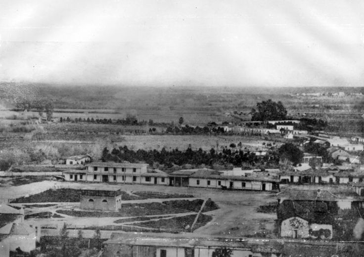 (ca. 1858) This is the earliest known close-up photograph of the Los Angeles Plaza. There is a square main brick reservoir in the middle of the Plaza, which was the terminus of the town's zanja, built by William G. Dryden. Other information This is the earliest known photograph of Los Angeles. Provenance is explained at screen 9.